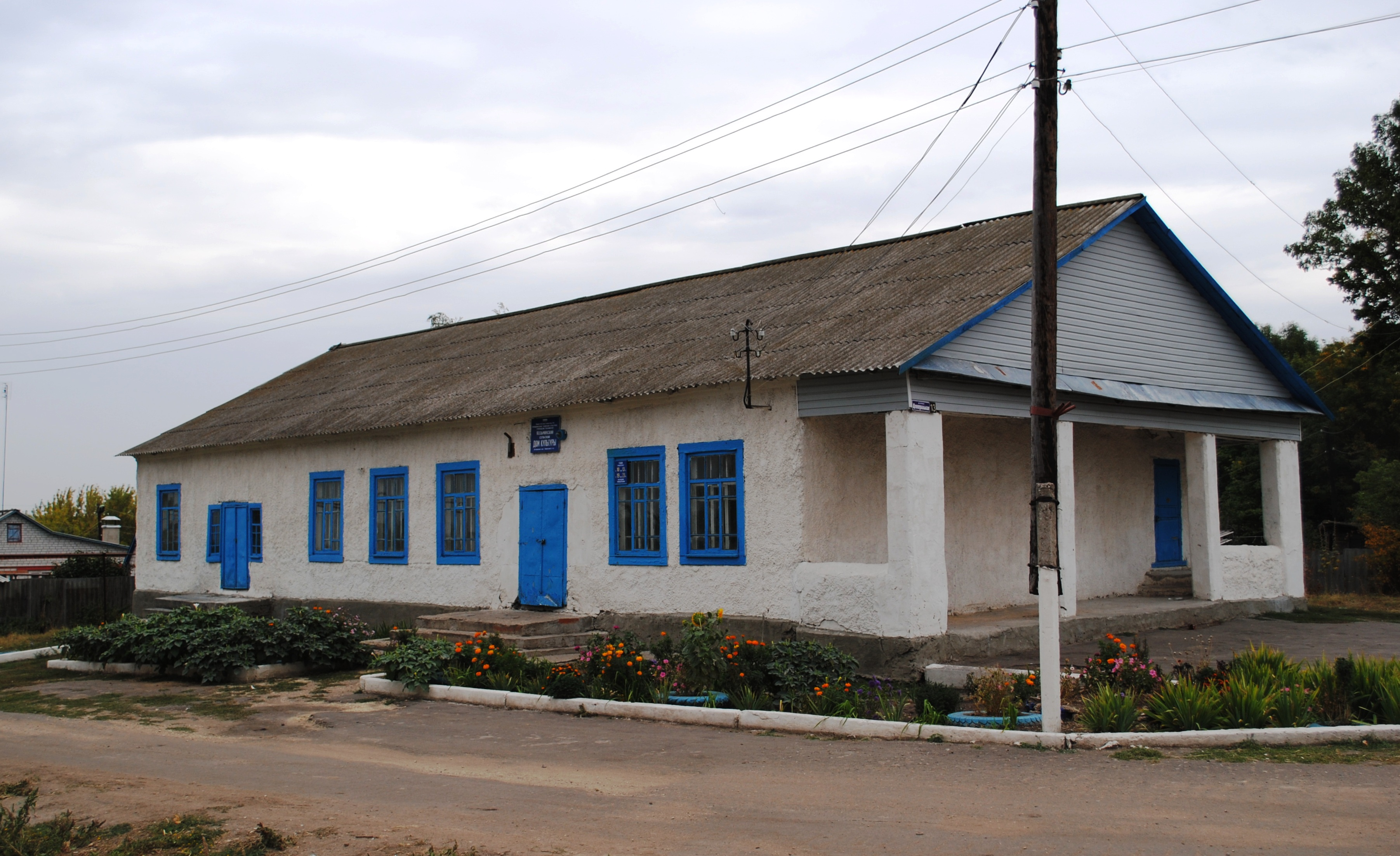 Kozminskoe